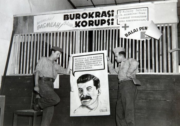 Soldiers with a poster, showing a portrait of Stalin, as it was found at an office of the socialist youth-movement of the Pemuda Sosialis Indonesia (Pesindo) party in Sukabumi. Soldiers with a poster of Stalin, found at an office of the Pemuda Sosialis Indonesia (Pesindo)